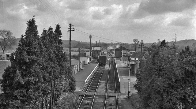 Bourton-on-the-Water Station. View eastward, towards Kingham; ex-Great Western, Cheltenham (St. James') - Andoversford - Kingham line. The station and line (from Lansdown Junction, Cheltenham) were closed to passengers 15/10/62, to goods 7/9/64. (Before World War II, the 'Ports to Ports' Express between Newcastle-on-Tyne and Swansea ran over this route, using the avoiding line at Kingham from the line from Banbury, also through coaches from Paddington to Cheltenham joined at Kingham and there was long-distance freight, including ironstone traffic from Hook Norton